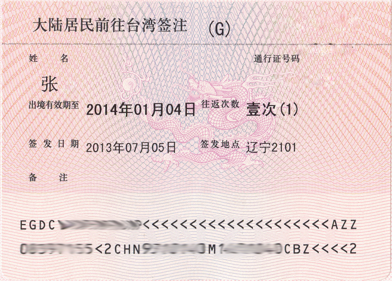 The Taiwan individual visit permit on a Taiwan Travel Permit for Mainland Residents (Chinese Mainland Compatriot Travel Document). It must be combined with an Exit & Entry Permit for the Taiwan Area of the Republic of China to be valid.